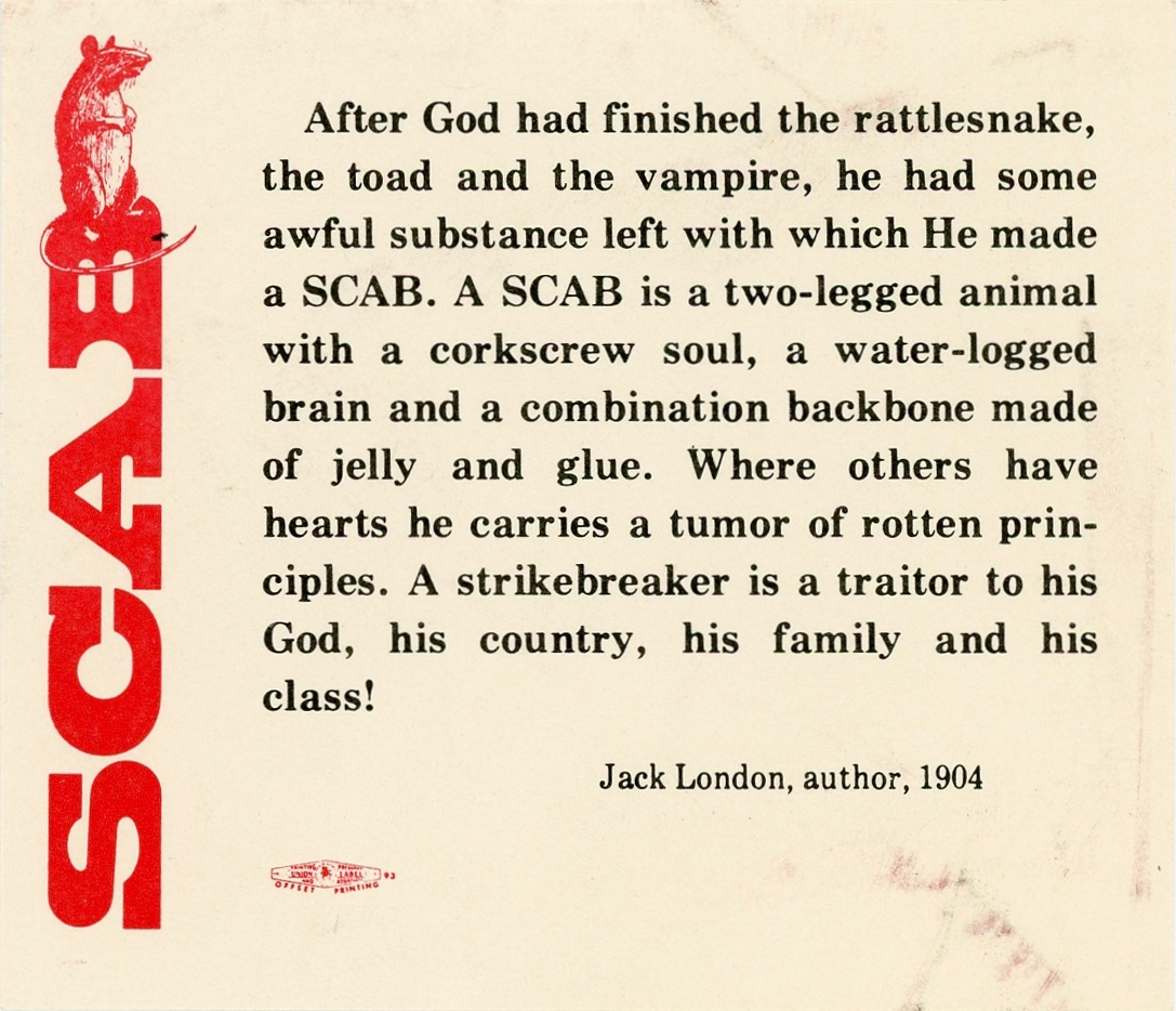 Quote from Jack London, 1904.